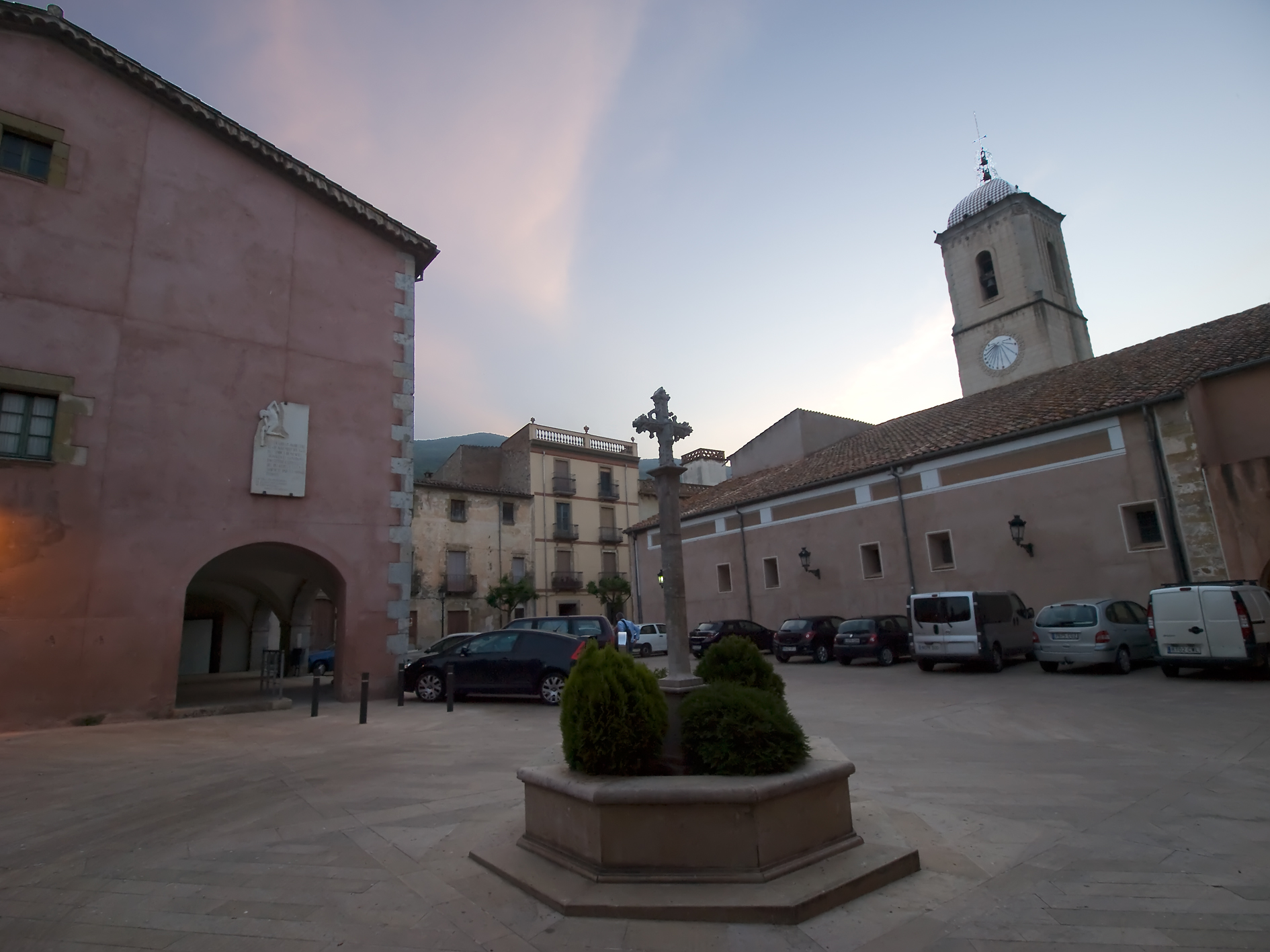 Monastery of Santa Maria d'Amer (Catalonia, Spain)